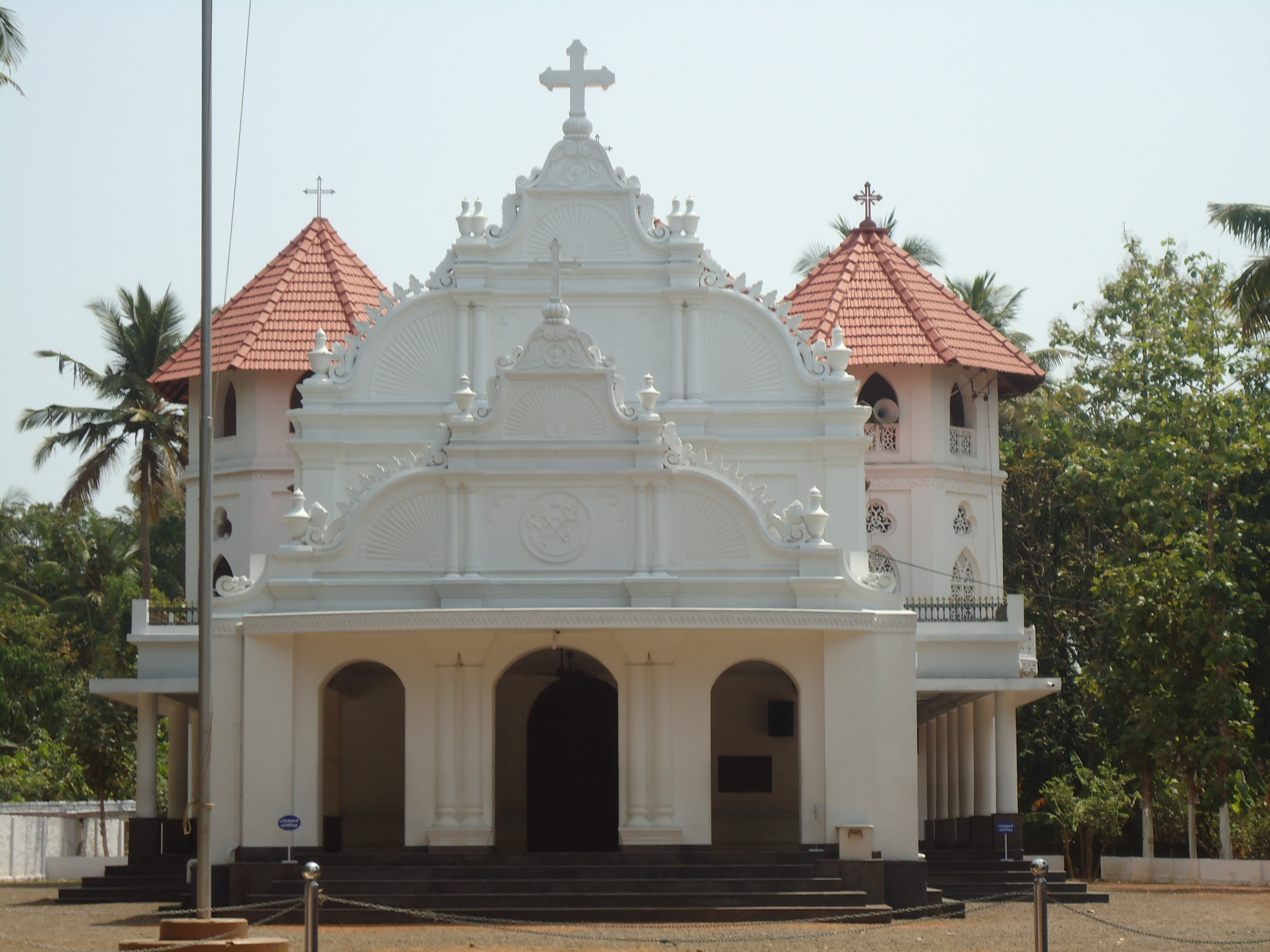 St George Jacobite Syrian church Manjapra